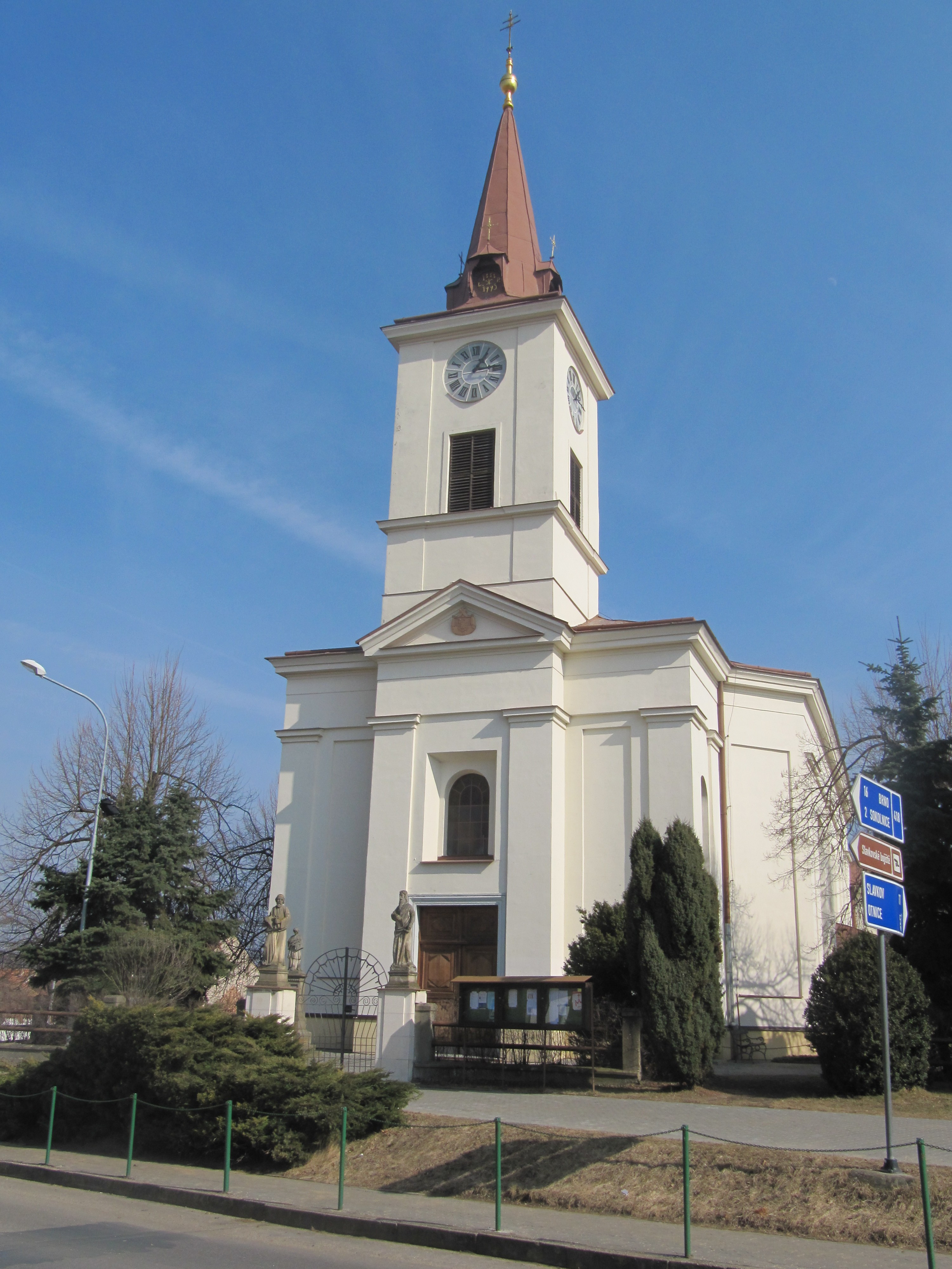 Újezd u Brna in Brno-Country District, Czech Republic. St. Peter and Paul-church.